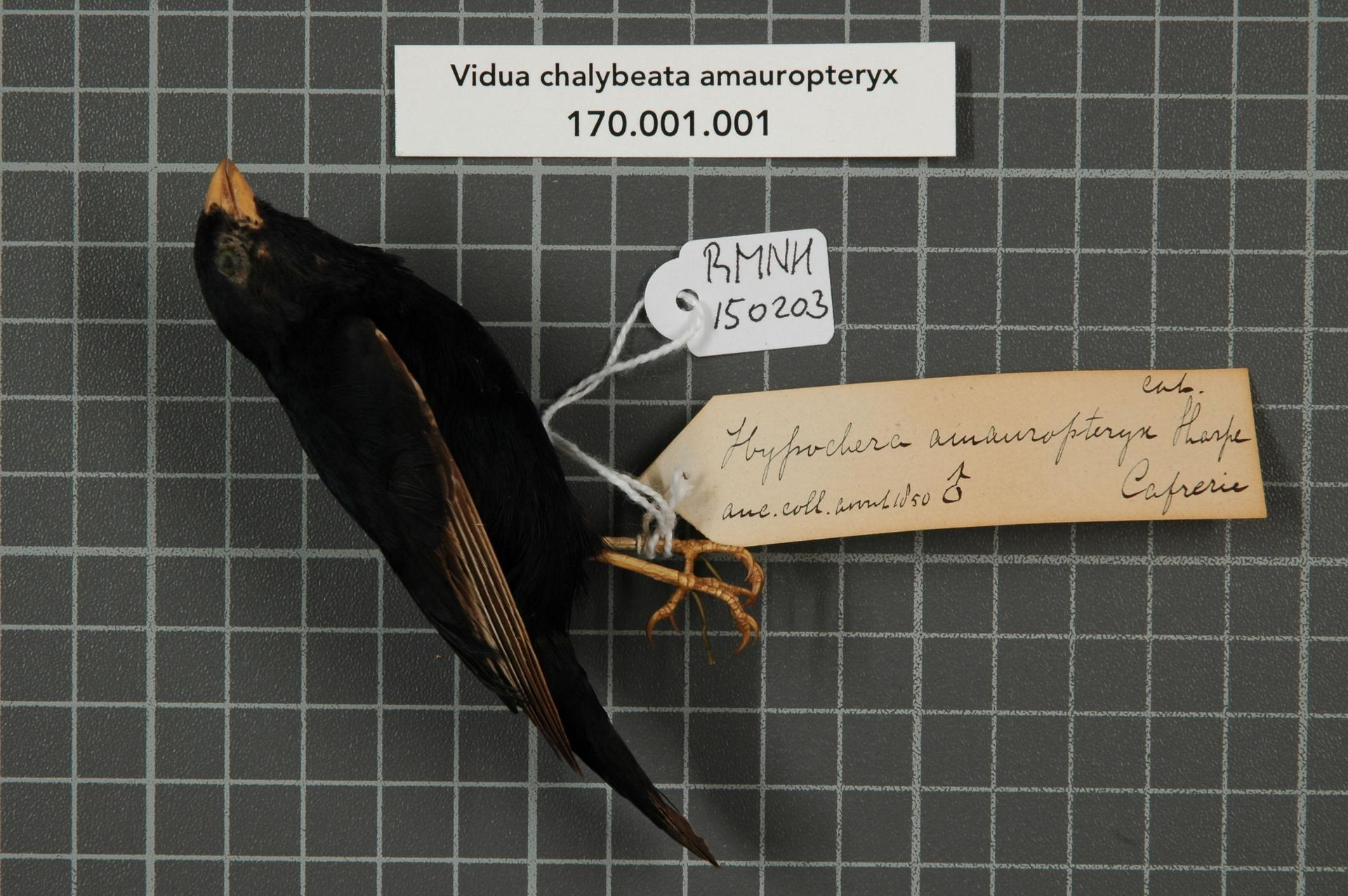 Presua chalybeata amauropteryx (Sharpe, 1890)